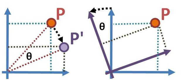 Comparison of passive and active coordinate transformations